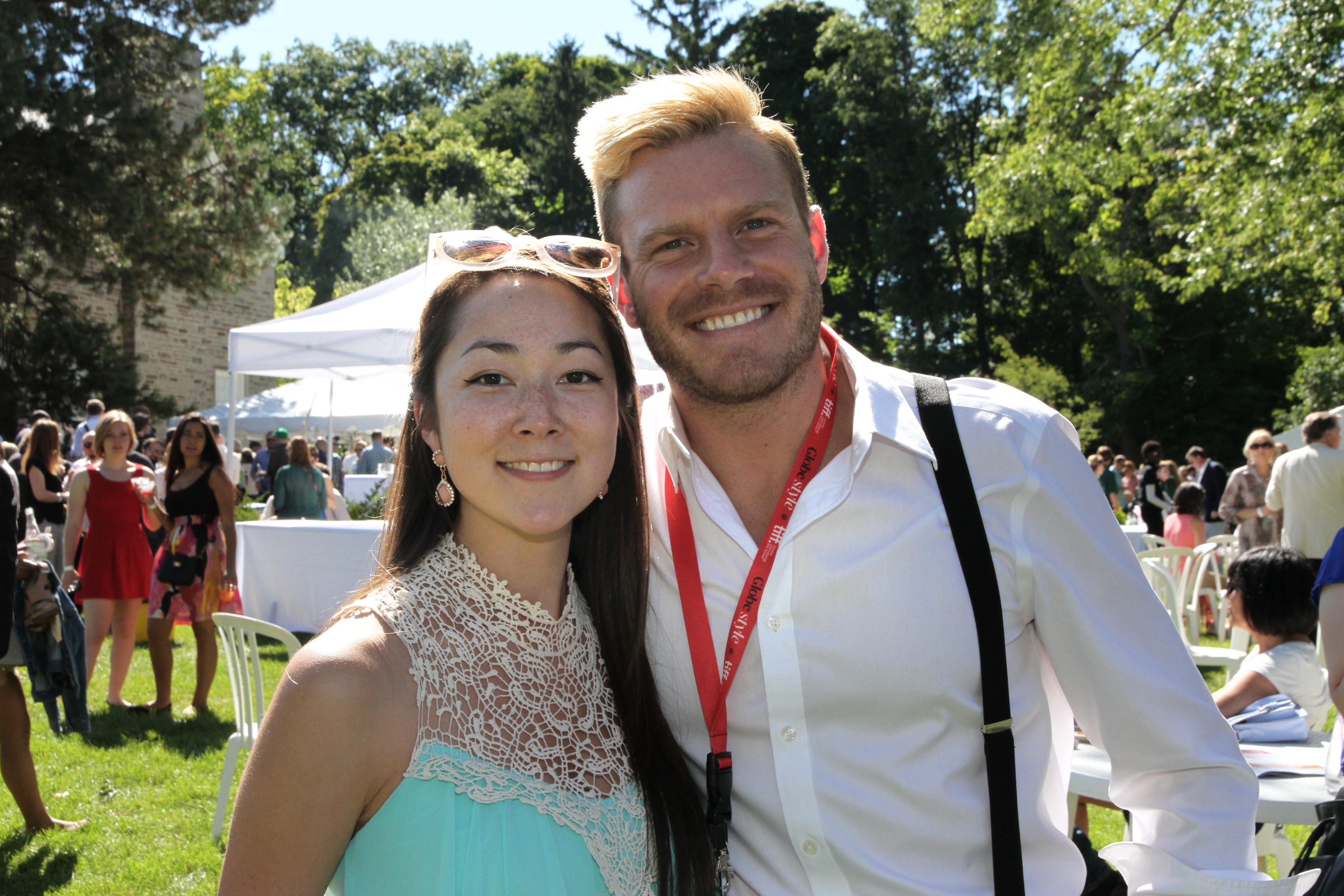 Emily Piggford and alumnus Pat Mills - who both have films screening in TIFF! - join us for the CFC Annual BBQ Fundraiser. Photos by: Danilo Ursini